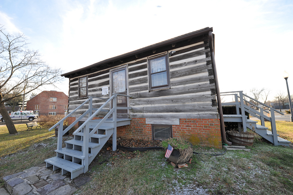 Historic Thomas Shinn Home, Mount Holly, New Jersey